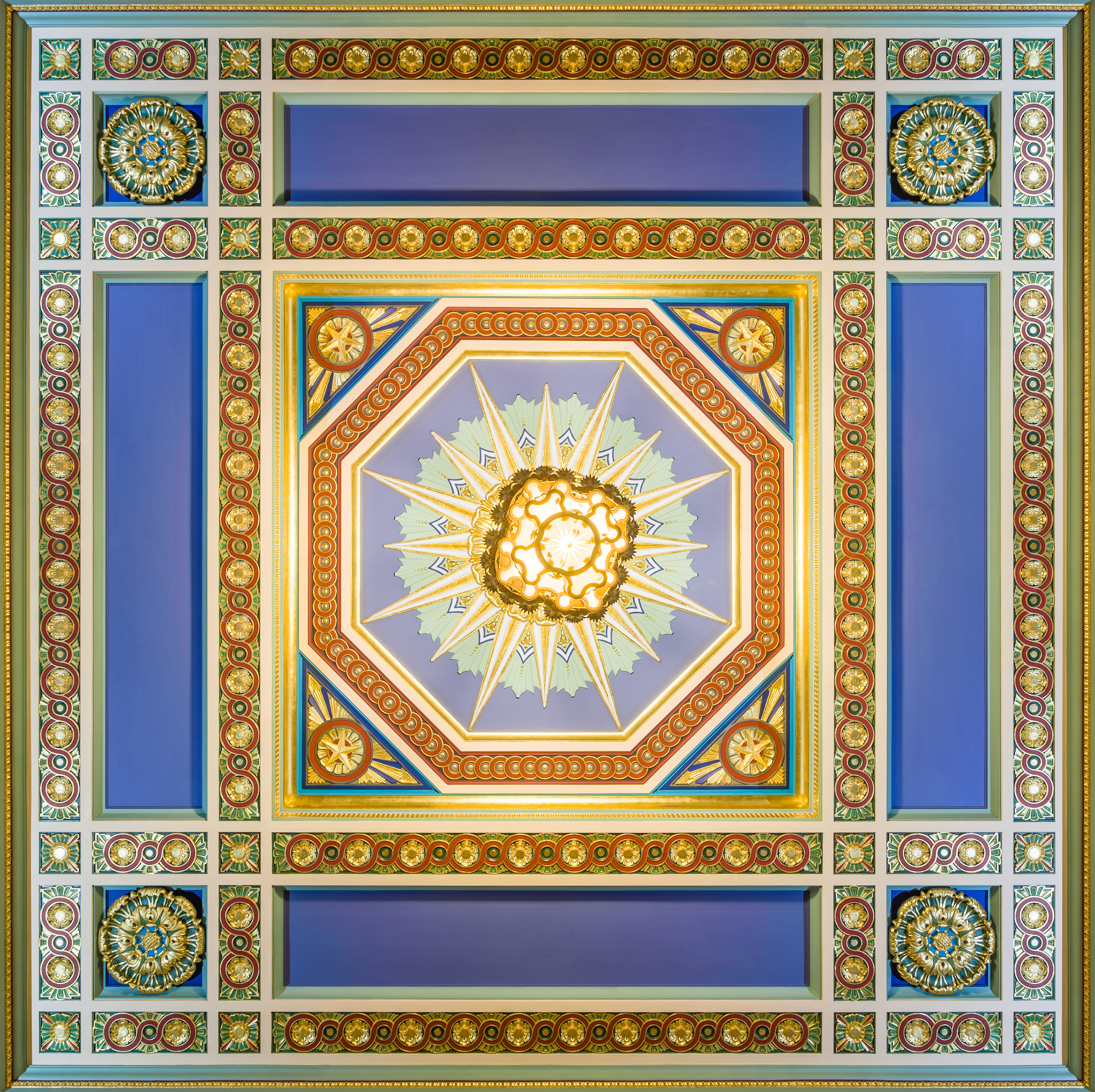 The ornate Art Deco ceiling in the third vestibule of Freemasons' Hall. The four blue panels represent heaven and the rose in each corner reflects the connection between England and Freemasonry.